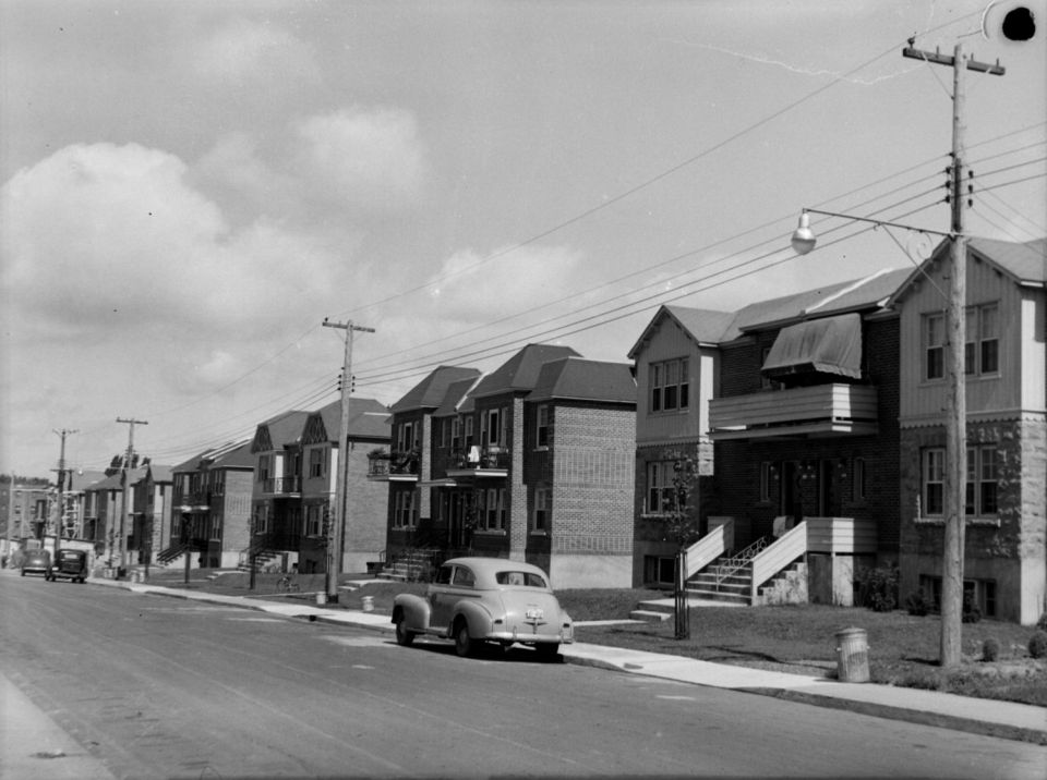 We see a street paired duplex in the Notre-Dame-de-Grâce in Montreal. The fourplex at the far right of the photo is 4945-4947-4949-4951 Draper Avenue, N.D.G., located on the east side of the street. The view faces north towards where Draper intersects with Cote St.Luc Road. Note that Draper was then a two-way street, but has since been reconfigured to a one-way-south. As an unusual circumstance, the upper balcony and awning have since been removed, as can be noted on contemporary Google Maps.